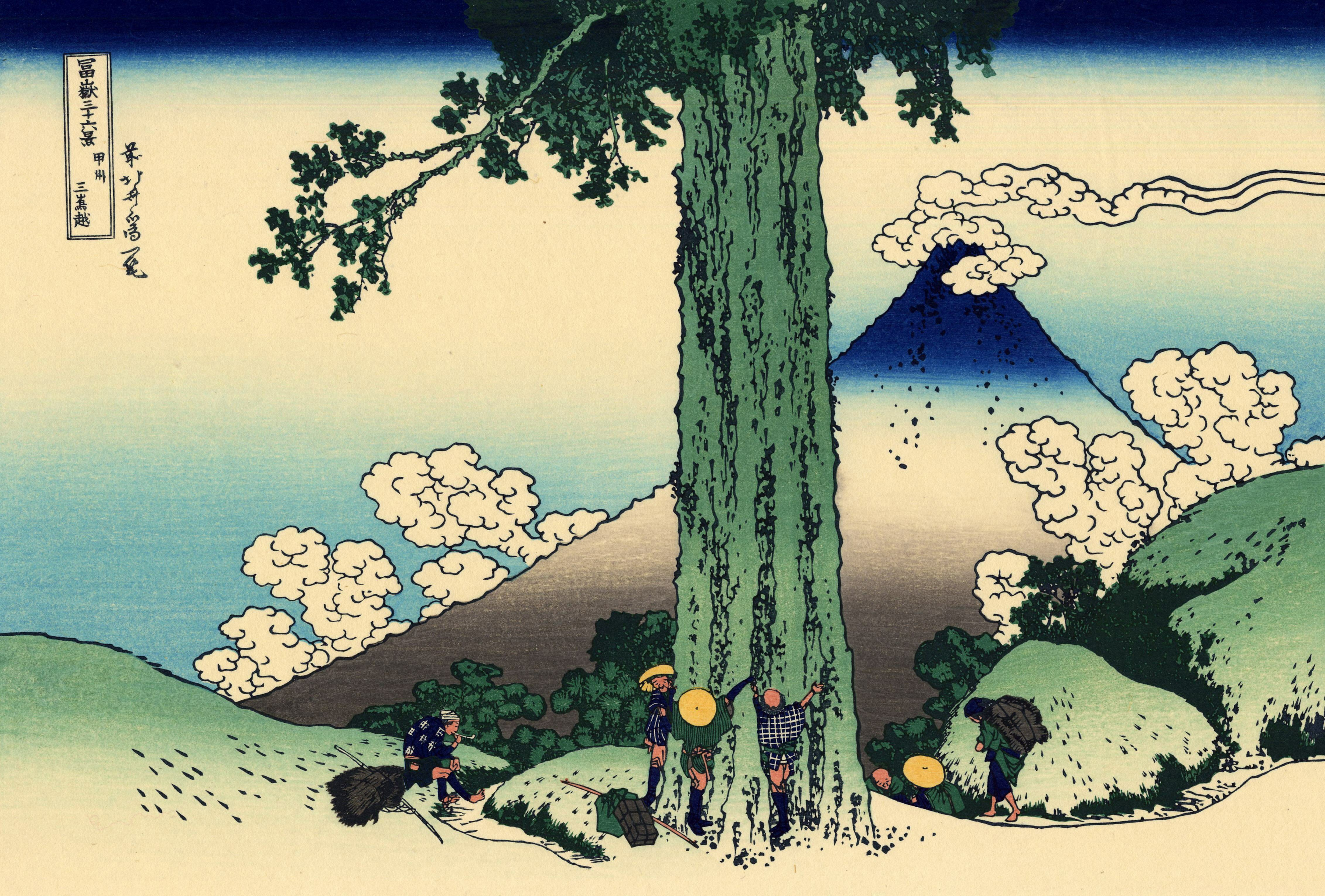 Part of the series Thirty-six Views of Mount Fuji, no. 29.